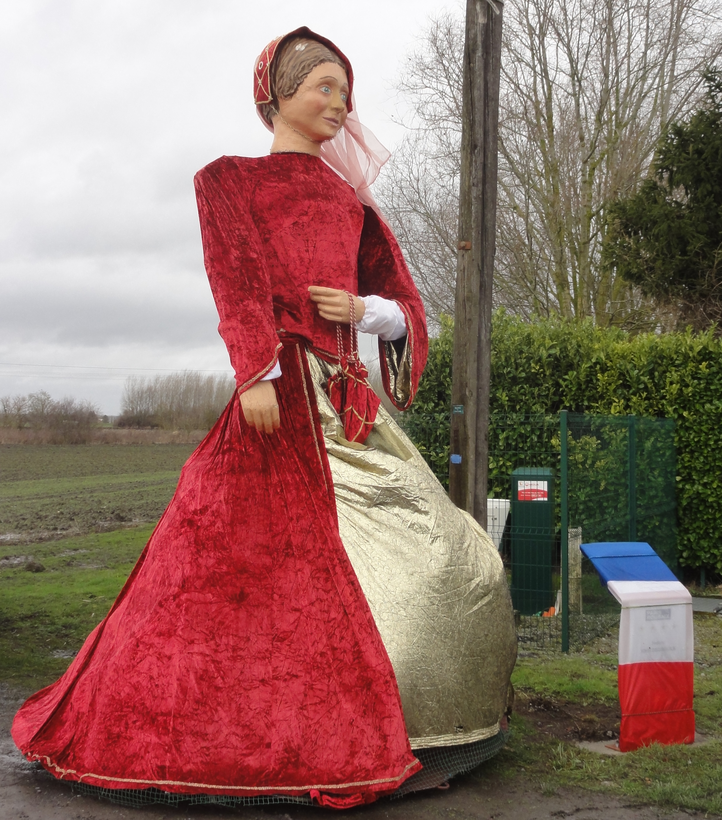 Template:Depicted event Depicted place: Hornaing